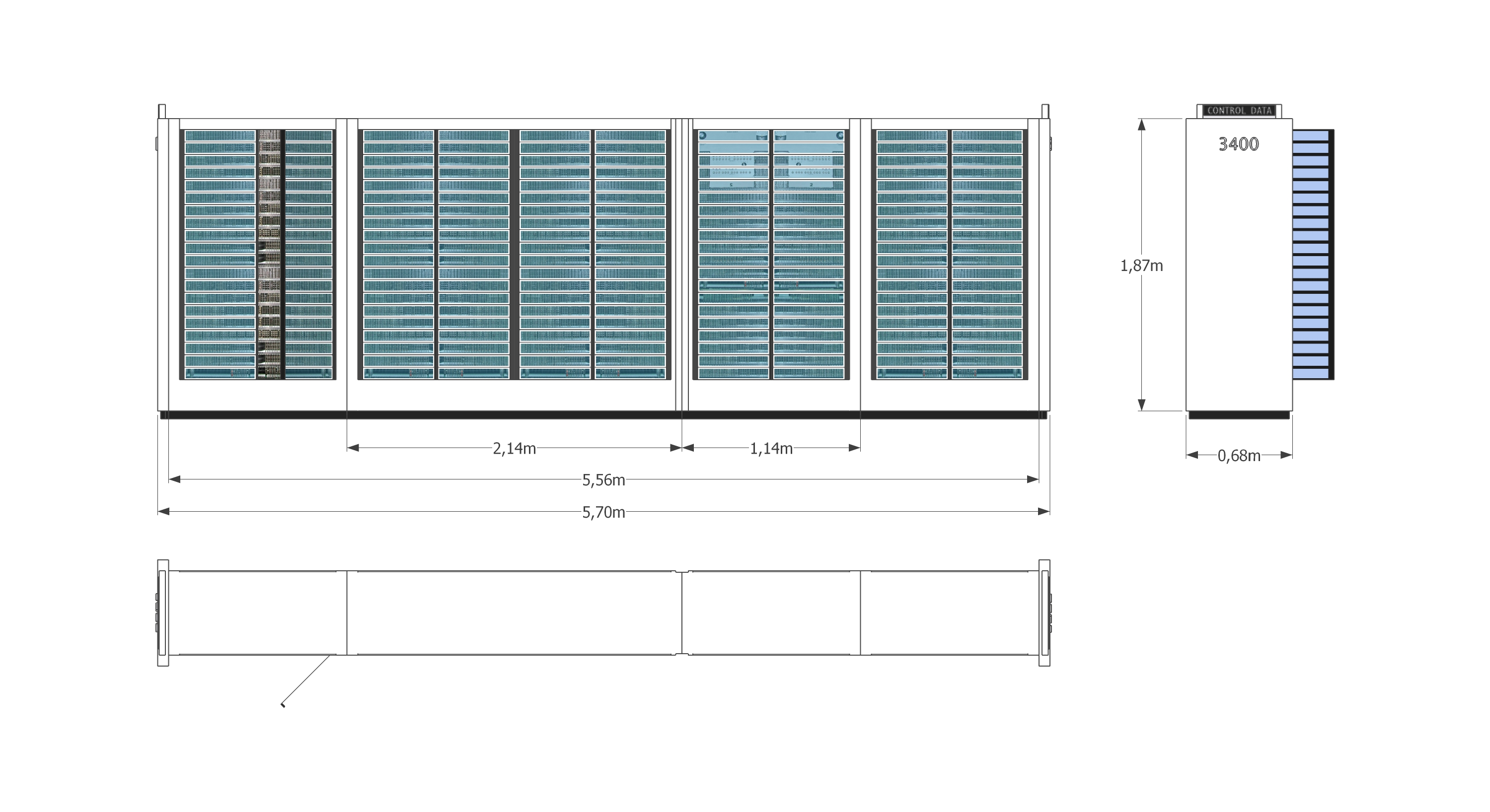 Sizing of modules of the supercomputer CDC 3000 series (CDC 3400 in this picture).